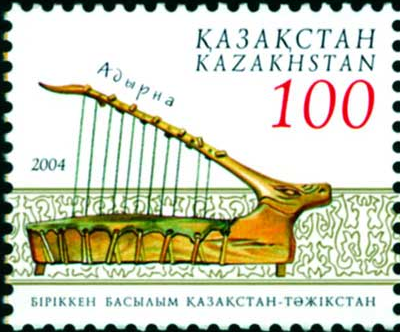 Adyrna, Kazakhstan's stamp, 2004, 100 t.